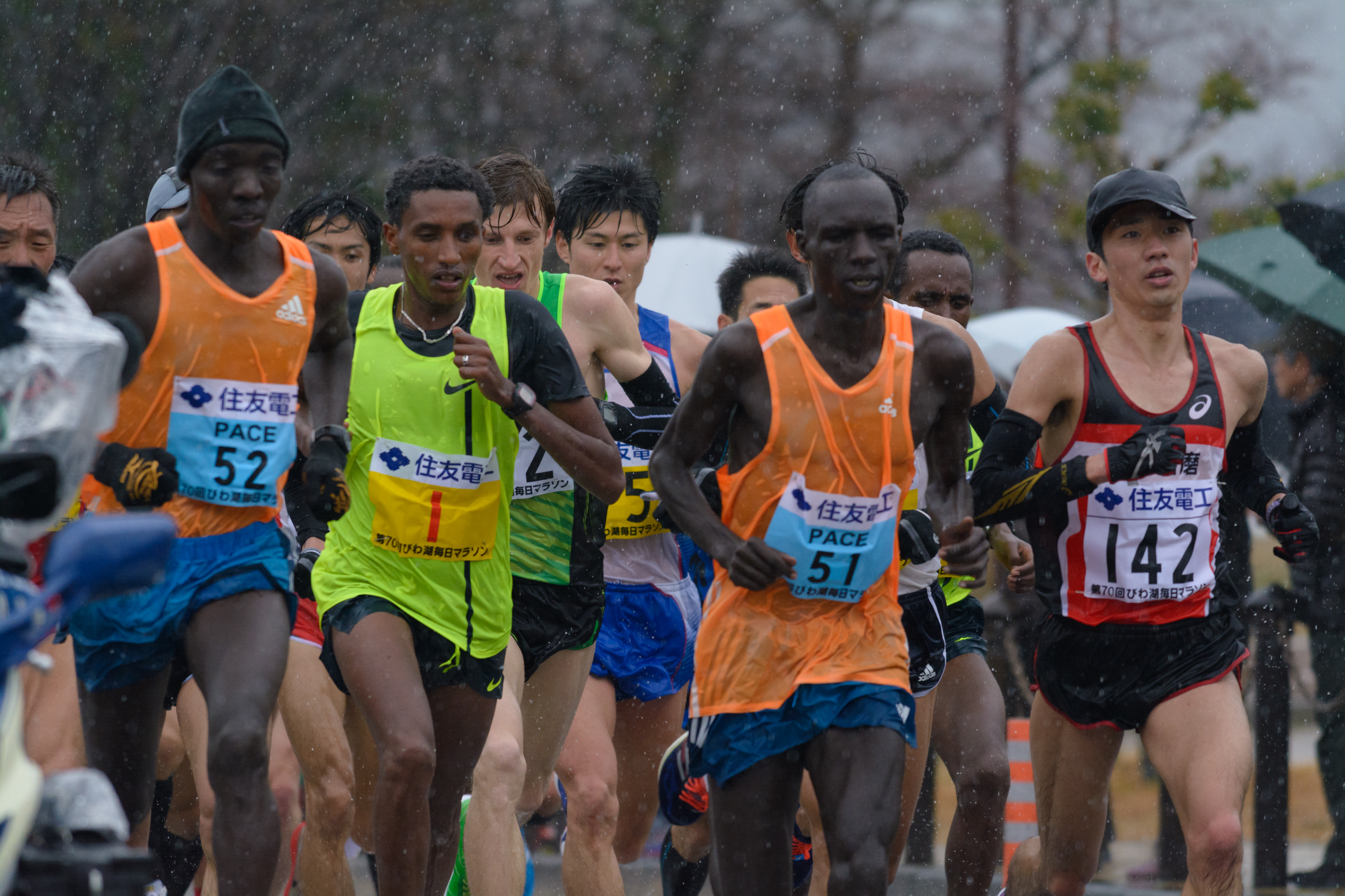 Bazu Worku (#1) in the 2015 Biwako Mainichi Marathon.